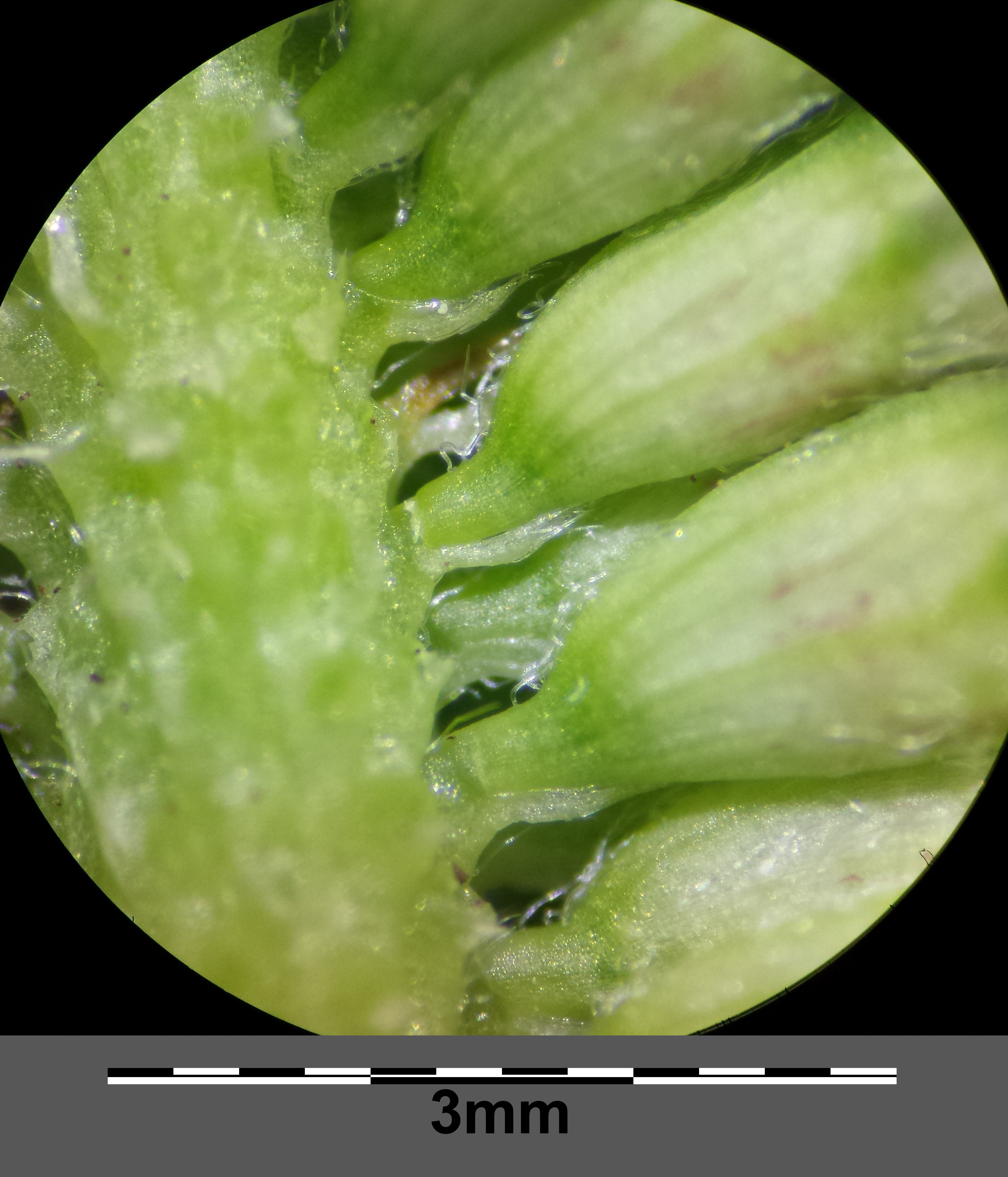 Pedicels with bracts Taxonym: Trifolium montanum (subsp. montanum) ss Fischer et al. EfÖLS 2008 ISBN 978-3-85474-187-9 Location: Kogelberg, Straning-Grafenberg, district Horn, Lower Austria - ca. 300 m a.s.l. Habitat: dry grassland